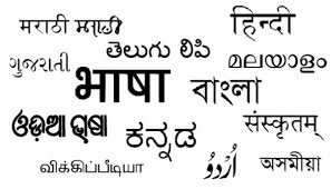 languages